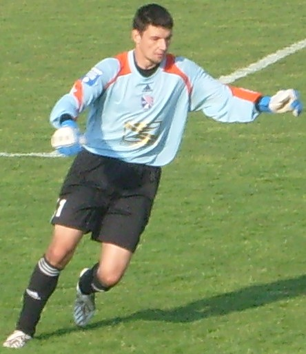 Ukrainian football player Maksym Startsev